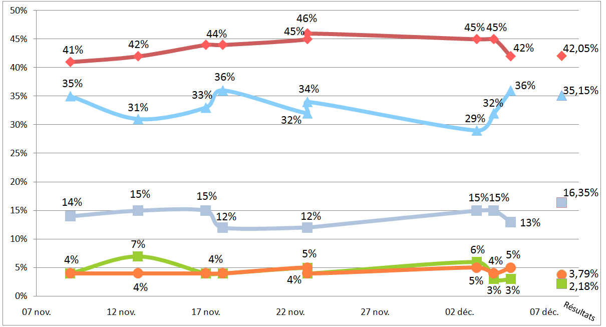 Poll's evolution in the 2008 electoral campagain in Quebec.